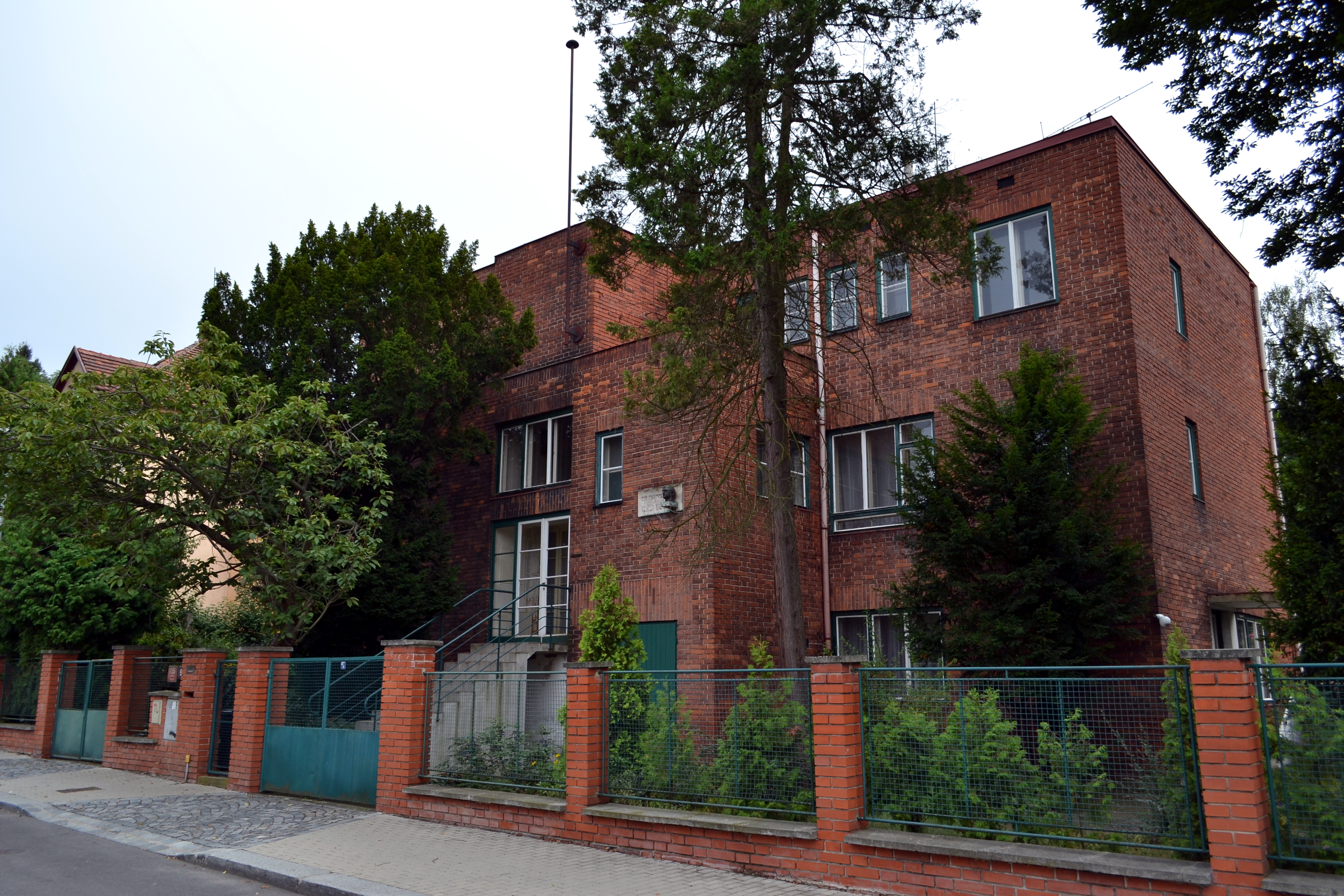 Villa of Václav Špála, Czech designer and painter. Na Dračkách 755/5, Střešovice, Prague 6, Czech Republic.